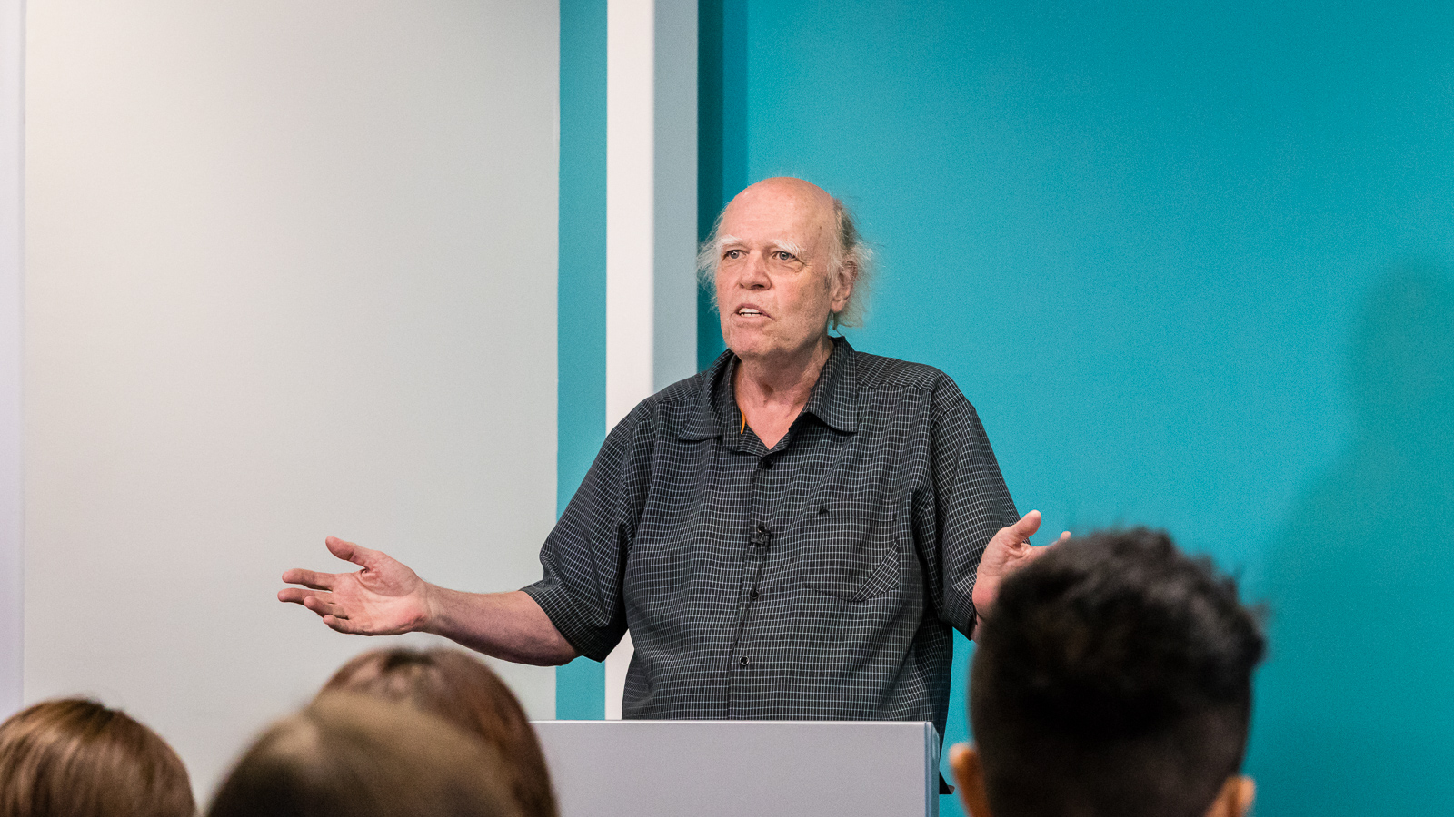 The Interdisciplinary Committee on Linguistics (ICOL) hosted a talk by James Paul Gee, Regents' Professor and Mary Lou Fulton Professor of Literacy Studies in the Mary Lou Fulton Teachers College at ASU.